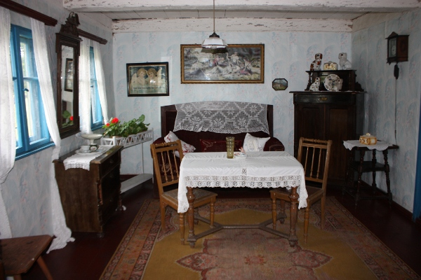 Kluki Skansen, village, 19.century